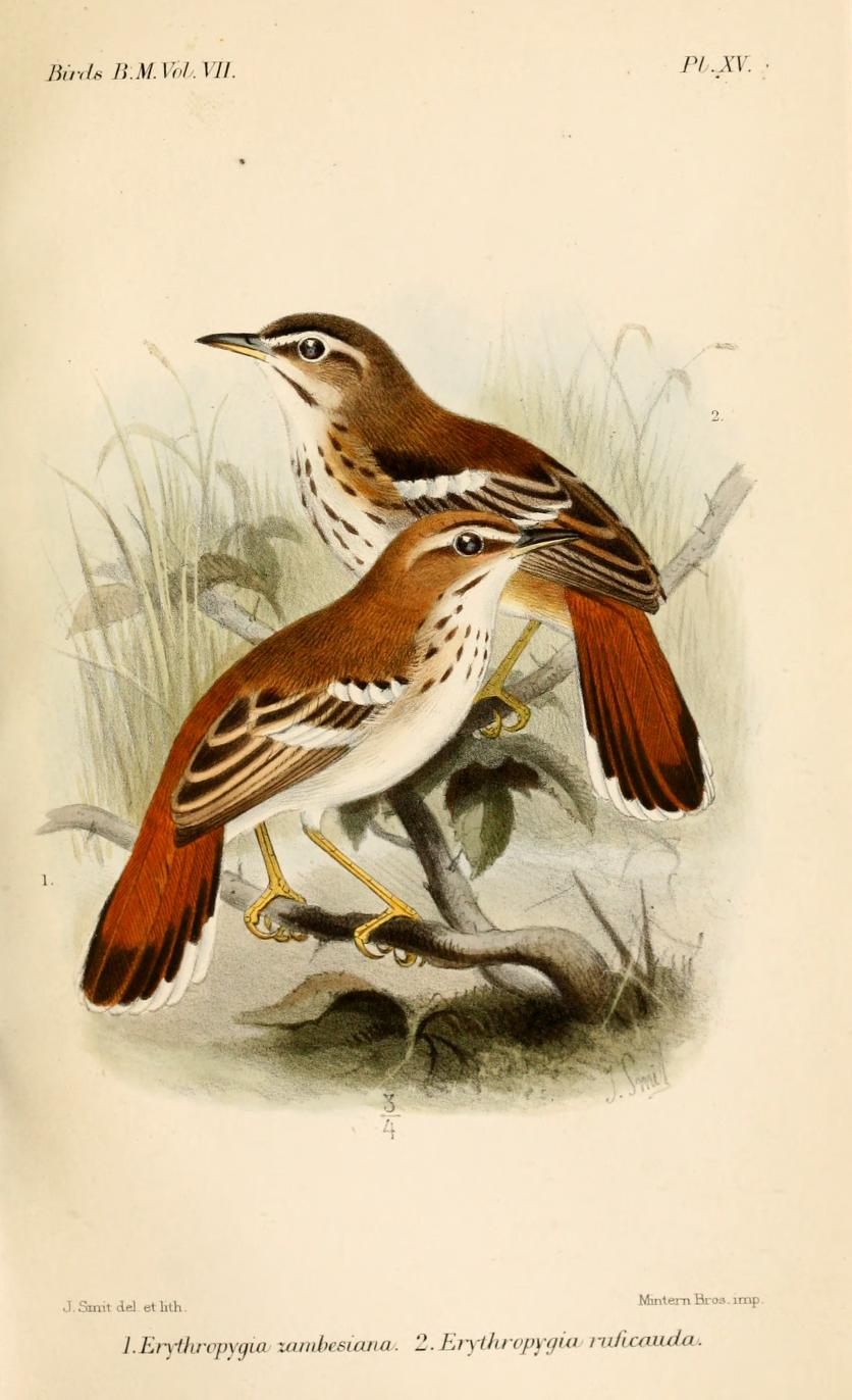 Red-backed Scrub-robin, adults